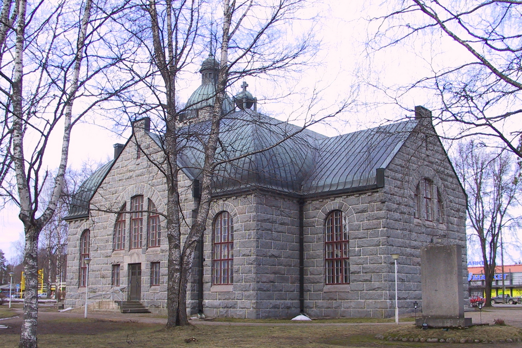 Hartola church, Hartola, Finland. Built in 1911–1913. Architect: Josef Stenbäck.